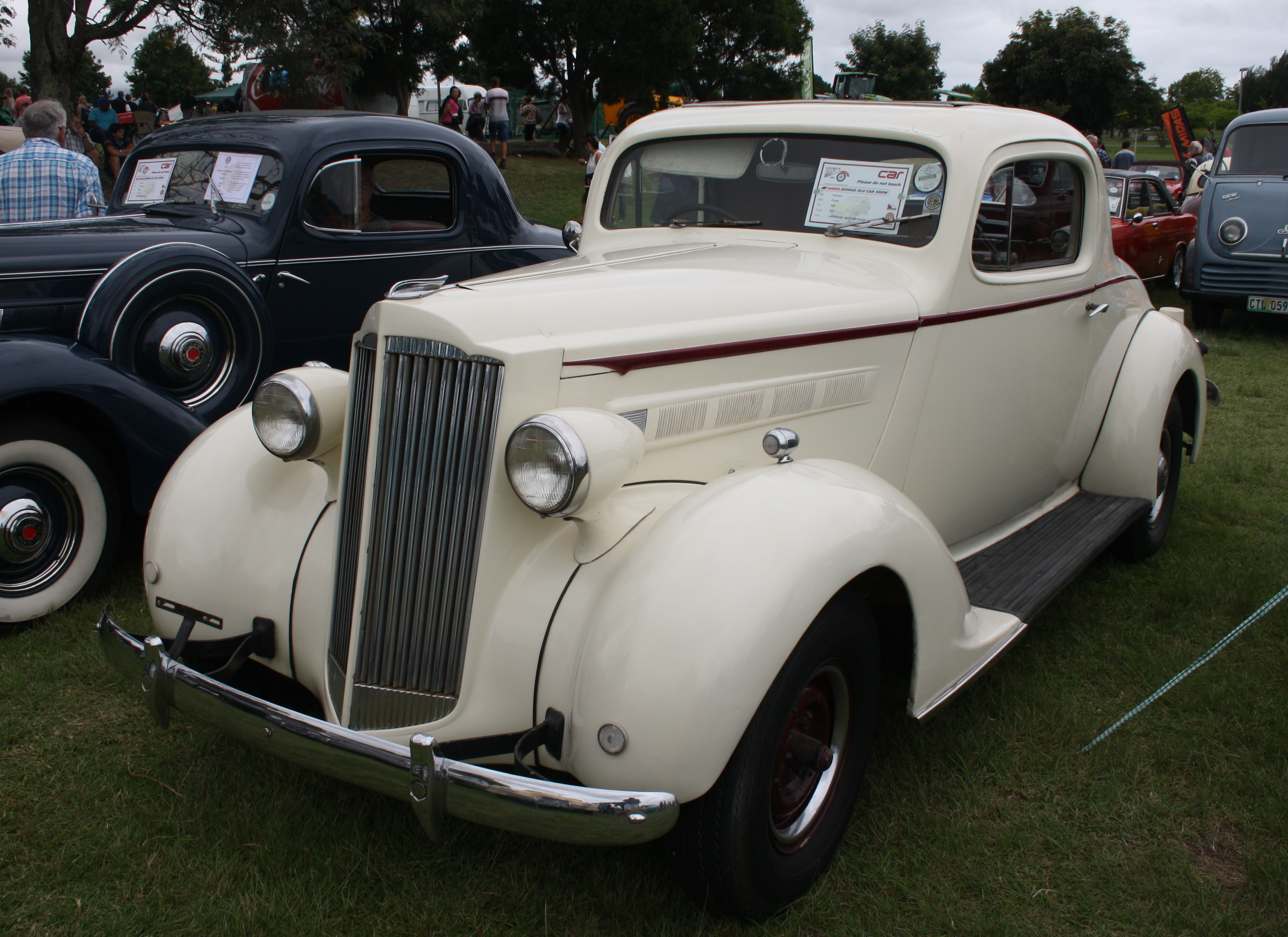 1937 Packard One-Fifteen (115-C) Coupe